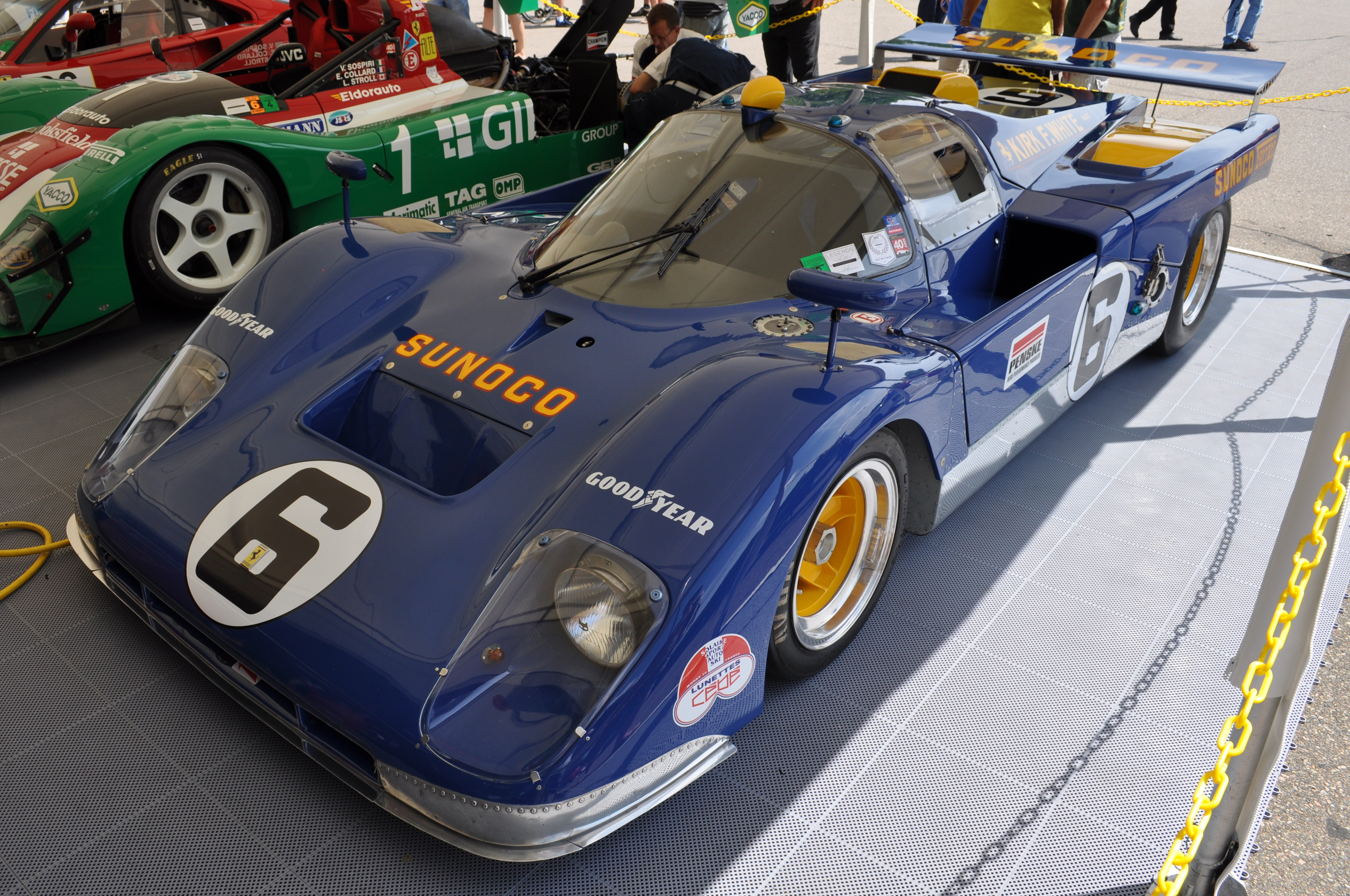 The Penske Racing Ferrari 512M racing car, in the paddock at Circuit Mont-Tremblant during the 2010 Legends of Motorsport meeting.